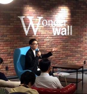 Yasuharu Ishikawa, President of the Stripe International Inc., attended a talk show at Momotaro Startup Cafe in Okayama City, Okayama Prefecture on September 6, 2019.